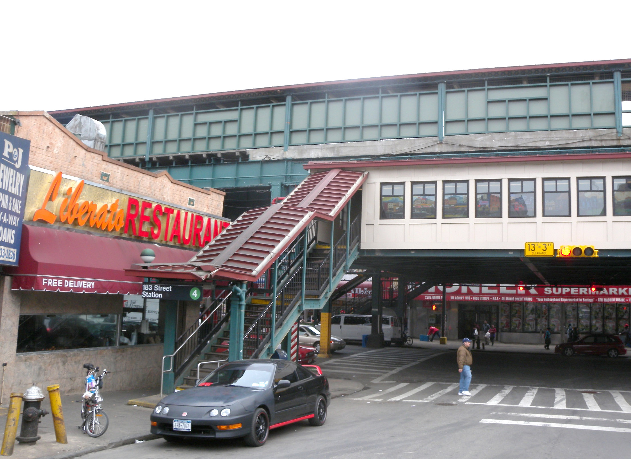 Looking east at IRT 183d St station on a cloudy midday.